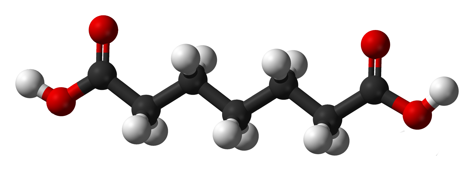 Ball and stick model of the pimelic acid molecule.